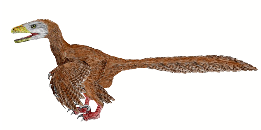 Deinonychus antirrhopus, a theropod from the Early Cretaceous of North America, pencil drawing